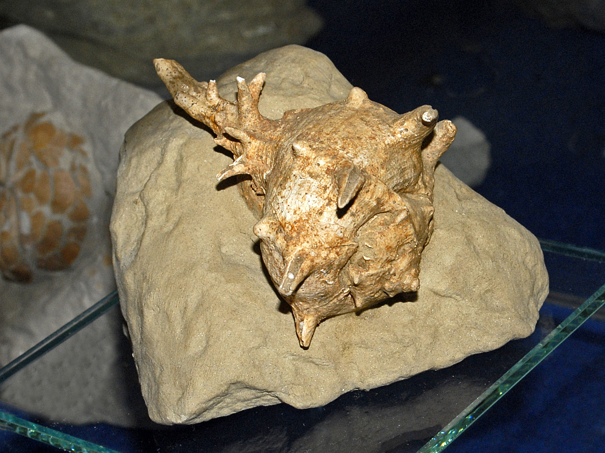 Fossil shell of Bolinus brandaris torularius from Pliocene of Italy, on display at the Museo Paleontologico, Asti